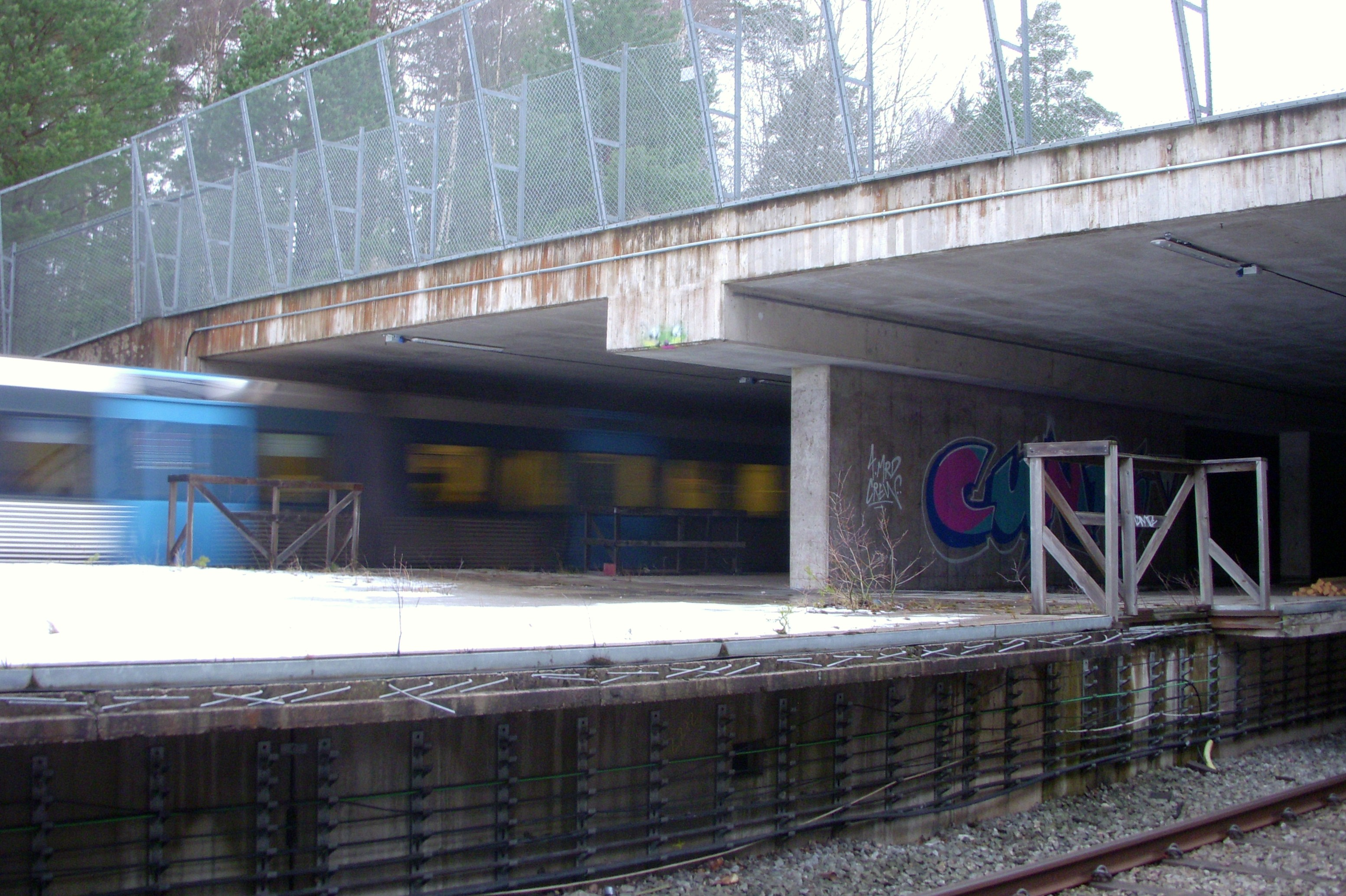 The never finished Stockholm metro station Kymlinge.